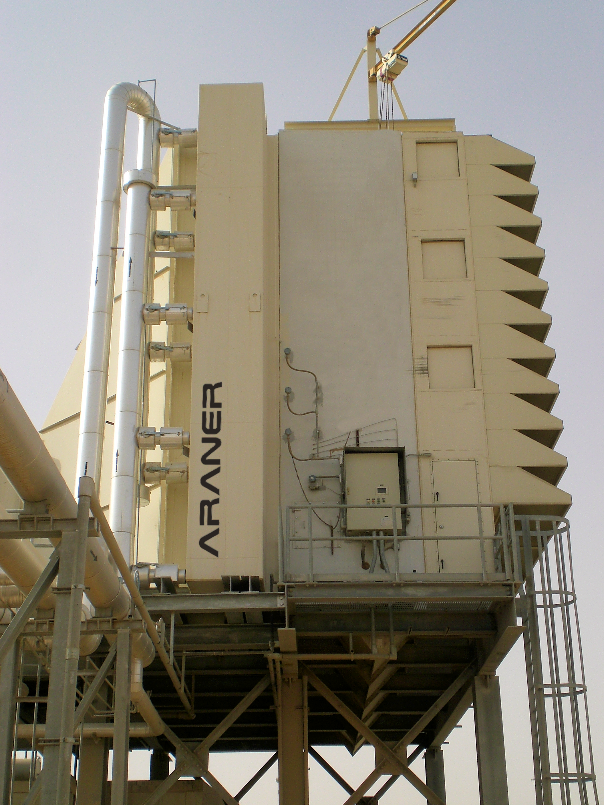 Filter-house with water distribution header to cooling coil.